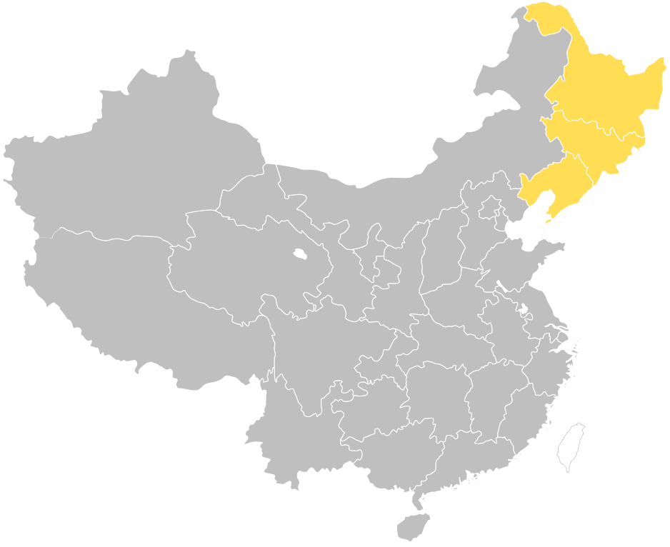 Dongbei northeastern provinces of China